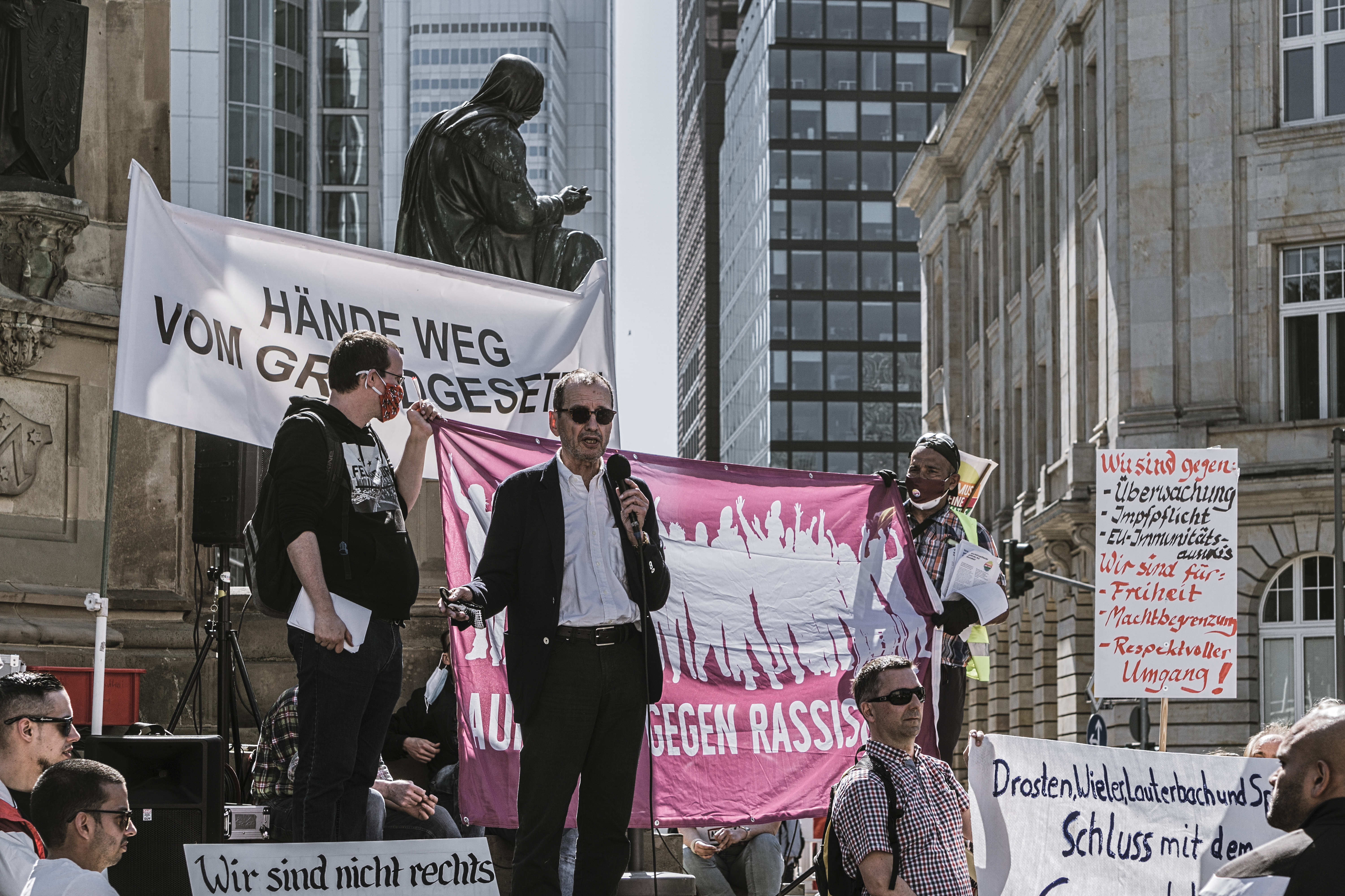 Protest against corona measures in Frankfurt am Main